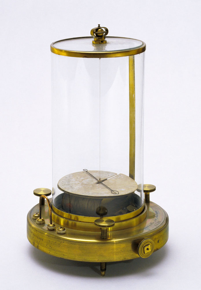 ArtistT. GourjonAuthorLeopoldo NobiliDescription